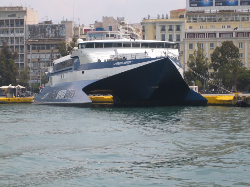 Aegean Speed Lines ferry 'Speedrunner 1' at Pireaus